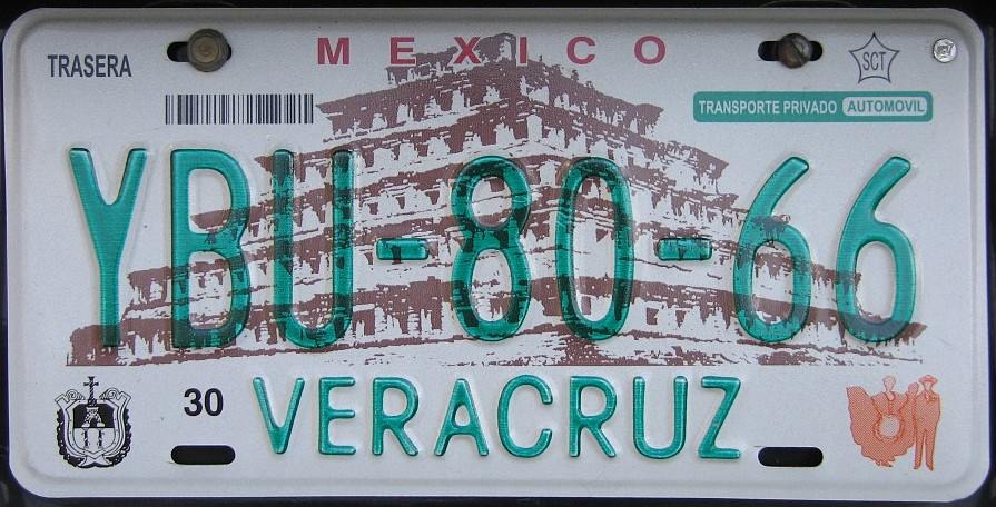 Number plate of Veracruz state, Mexico